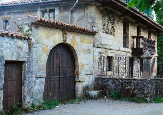 Casona Montañesa, uploaded by Garabero